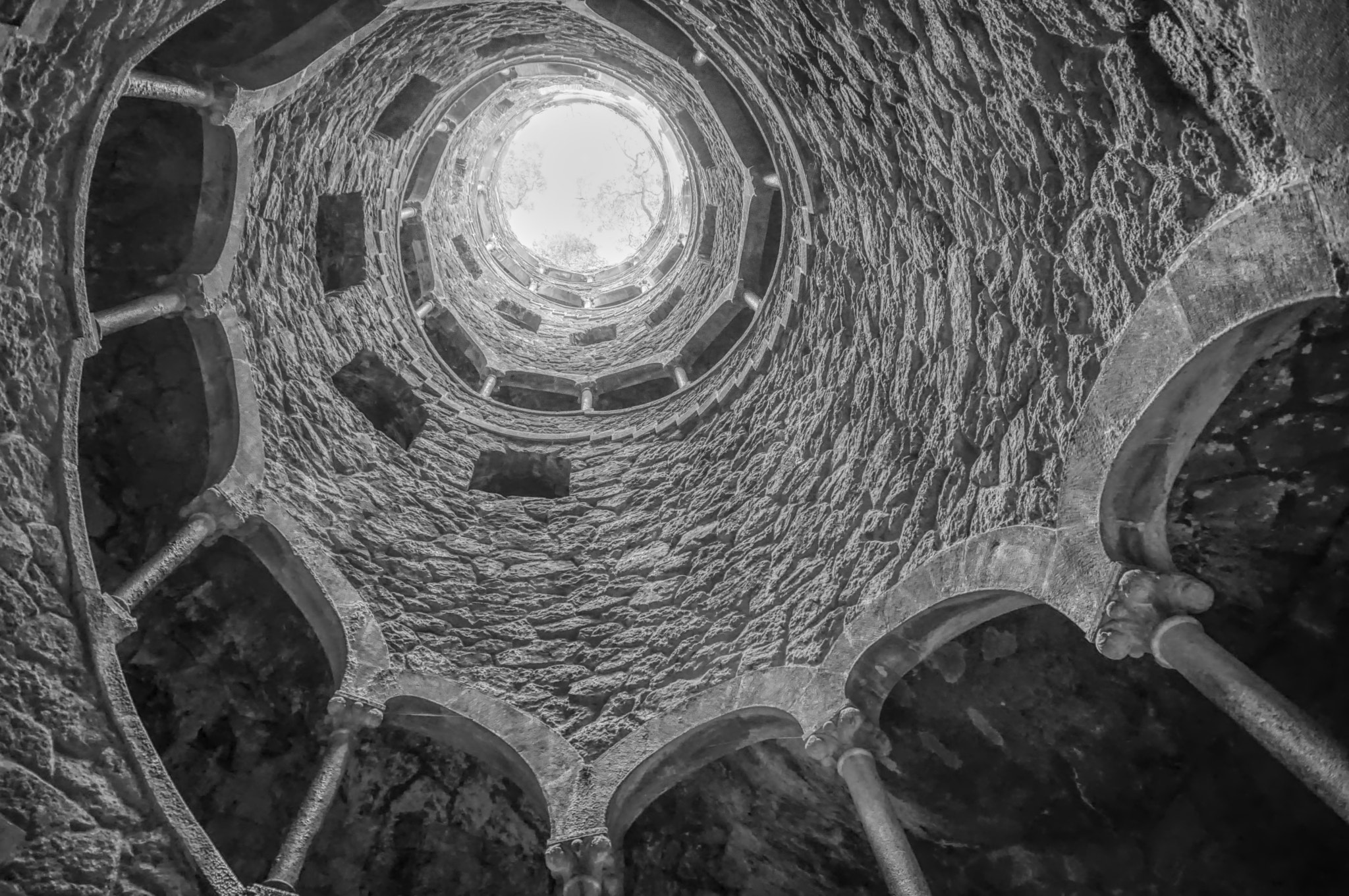 500px provided description: Well and Spiral Staircases. [#trees ,#old ,#architecture ,#stairs ,#well ,#b&w]